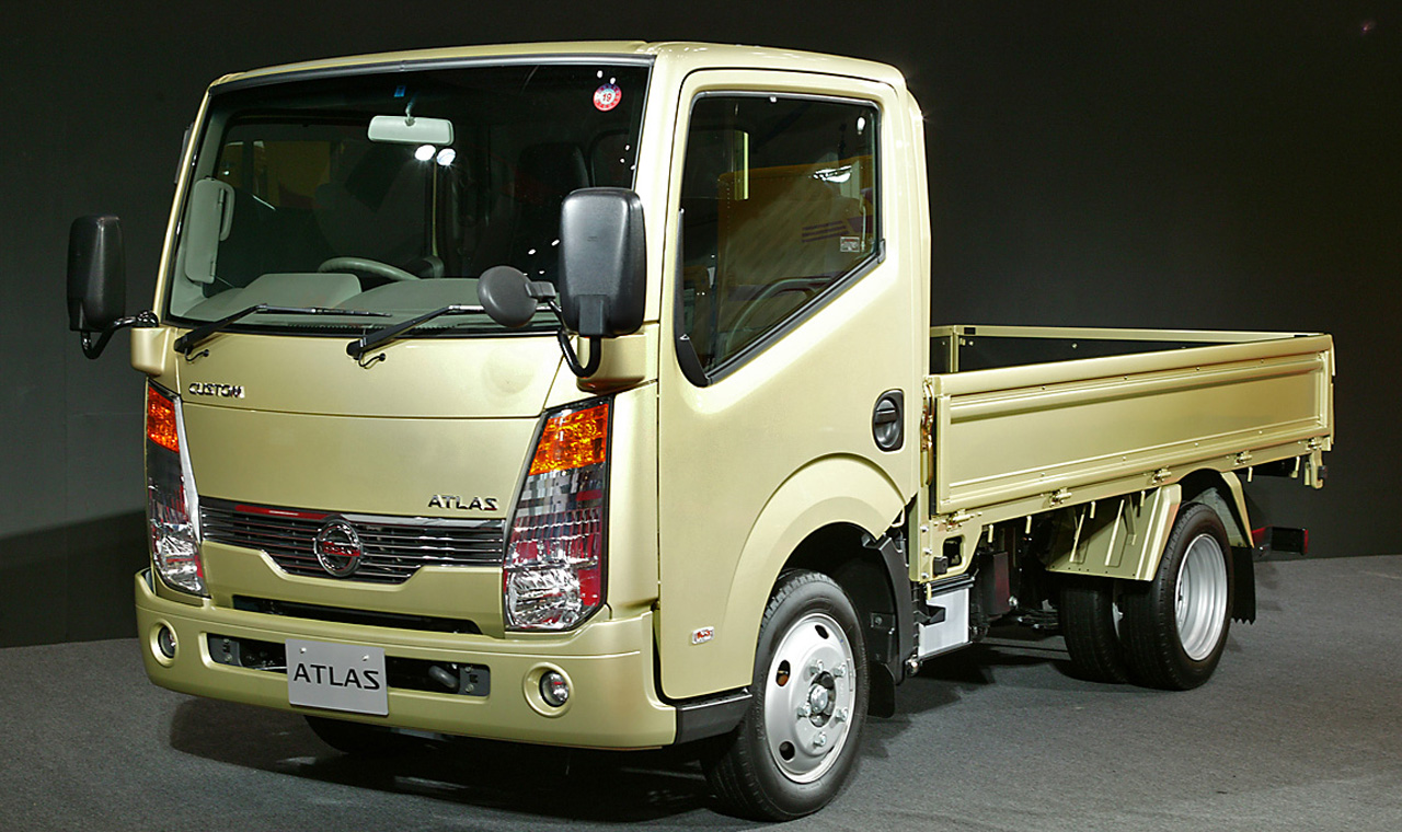 Nissan Atlas F24 at launch event in Tokyo Truck Show 2007.